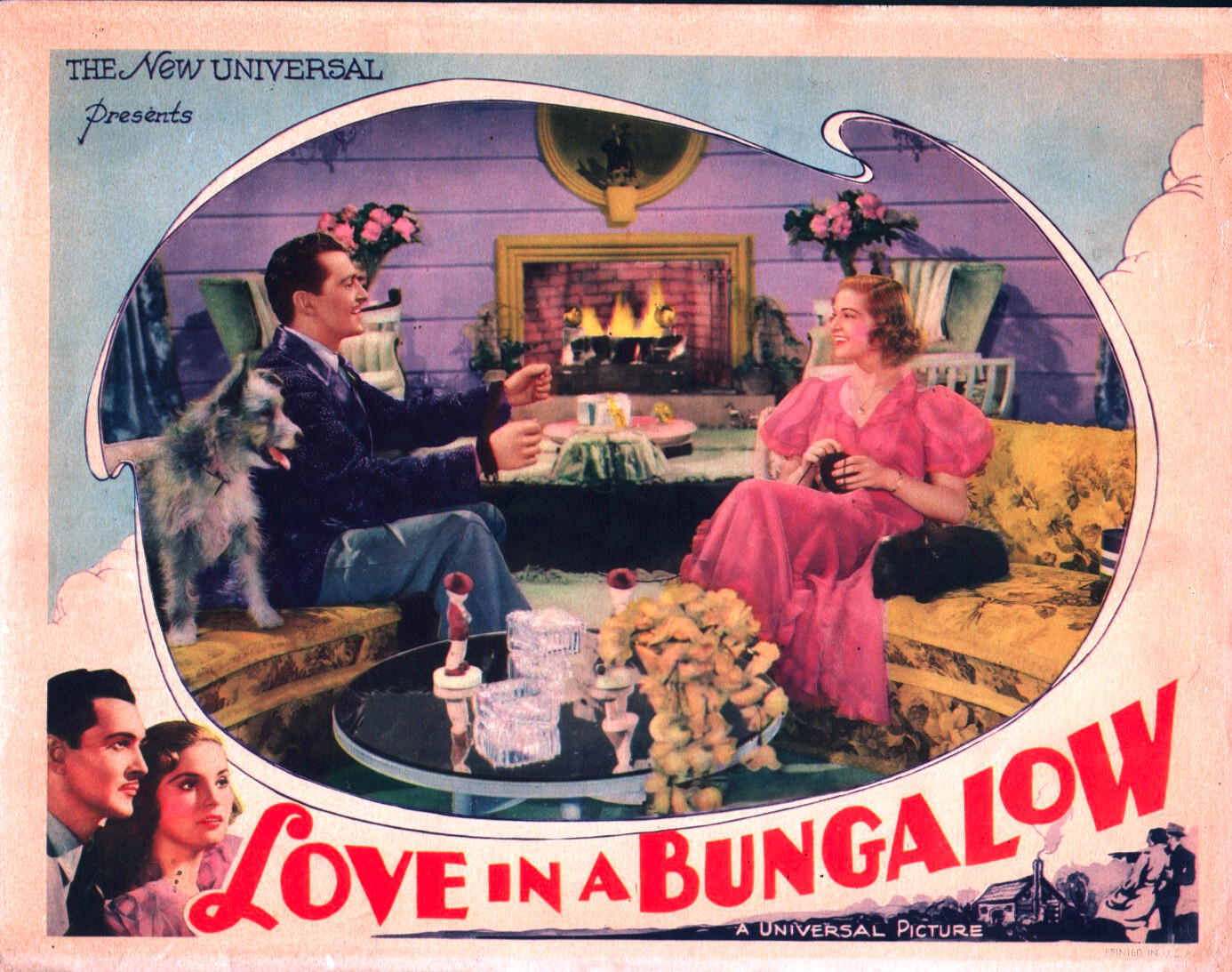 Lobby card for the American comedy romance film Love in a Bungalow (1937).